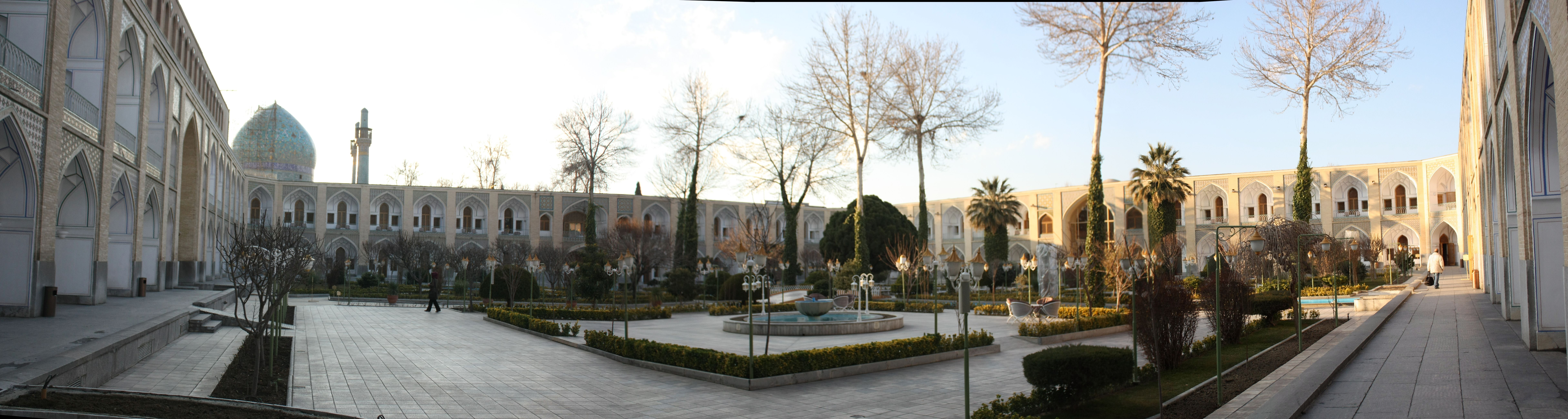 Abbasi Hotel